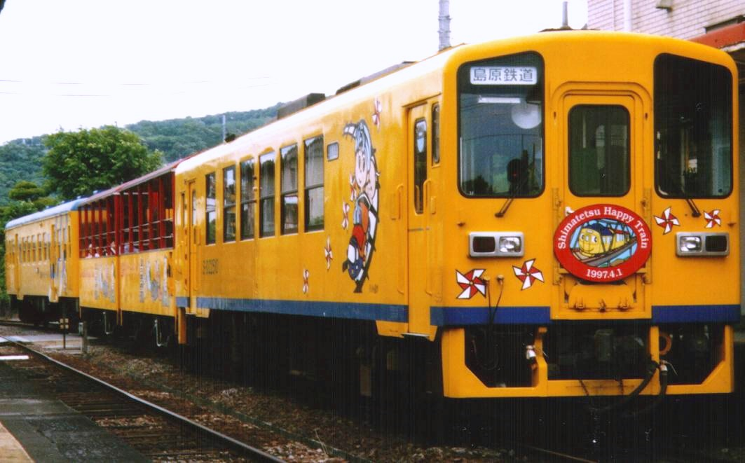 Shimabara Railway Happy Train（Nagasaki prefecture , Japan）.